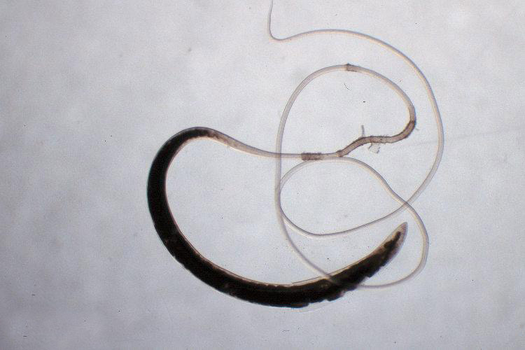 Trichuris nematode worm of sheep